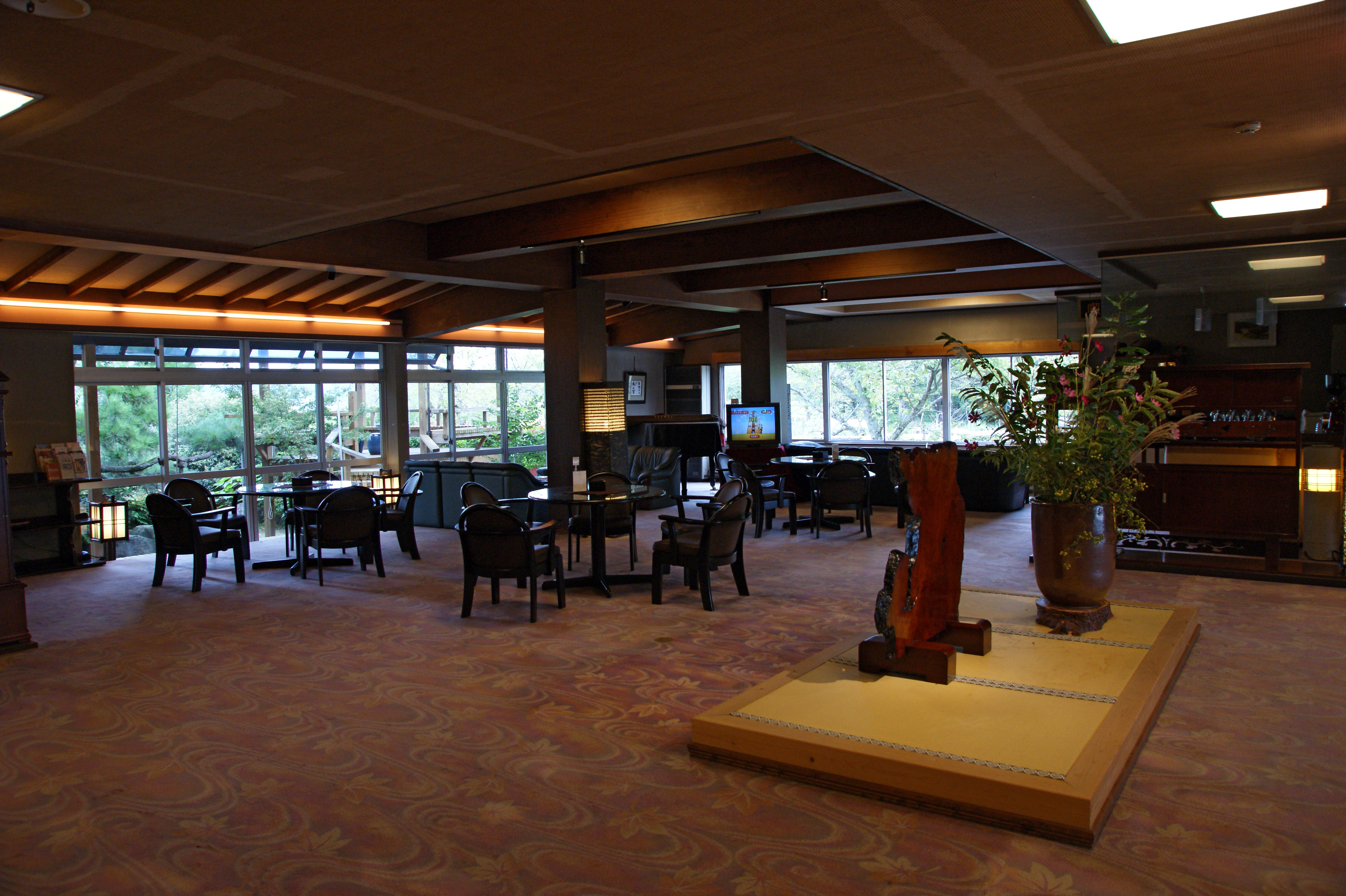 Togo Onsen, Yurihama, Tottori prefecture, Japan